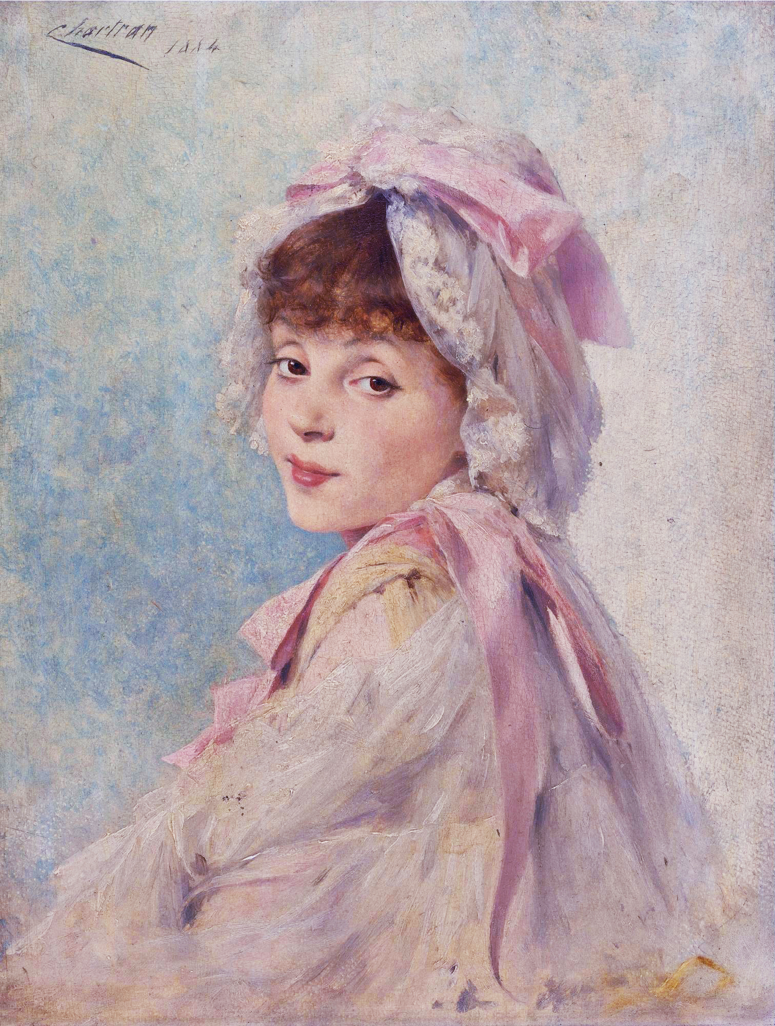 Gabrielle Réjane as a young actress oil on panel 26.6 by 20.9 cm signed t.l: Chartran / 1884